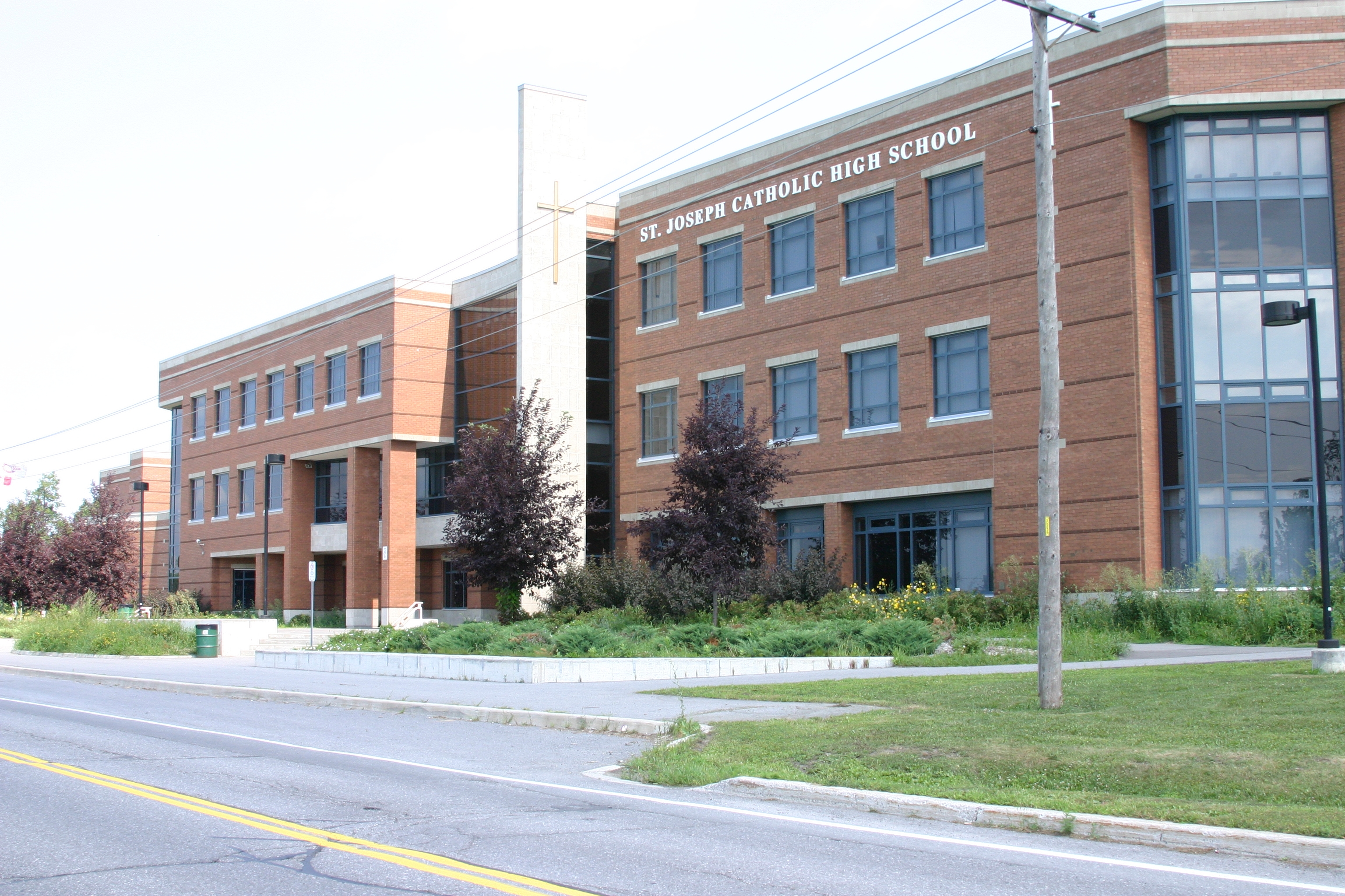 St. Joseph Catholic High School in Barrhaven, a suburb of Ottawa, Ontario, Canada.